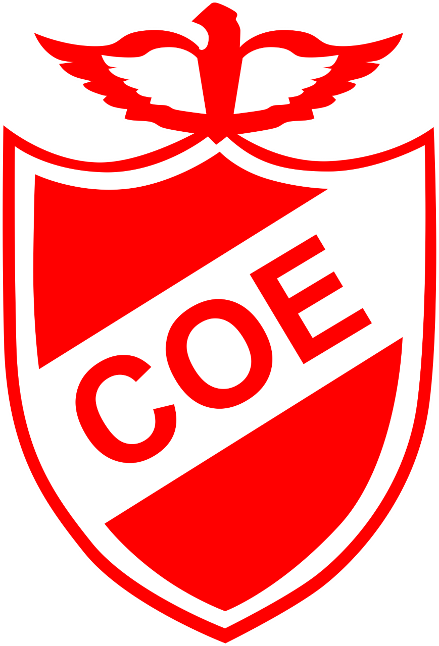 Official emblem of the Octavio Espinosa Club of Ica